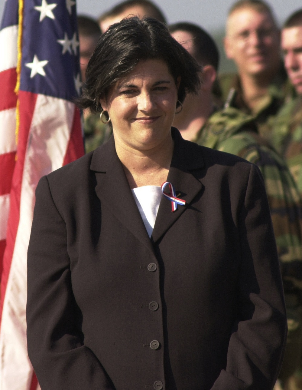 Governor Jane Swift -R, Mass., joins environmental officials at Otis Air National Guard Base to sign the property lease Oct. 4, 2001, for the Massachusetts Military Reservation, which is home for U.S. Air Force, Army, and Coast Guard servicemembers. (U.S. Air Force photo by Sandra Niedzwiecki) (Released)